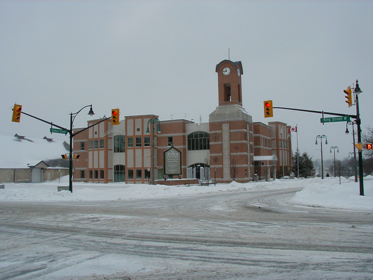 Ingersoll town hall, winter 2009